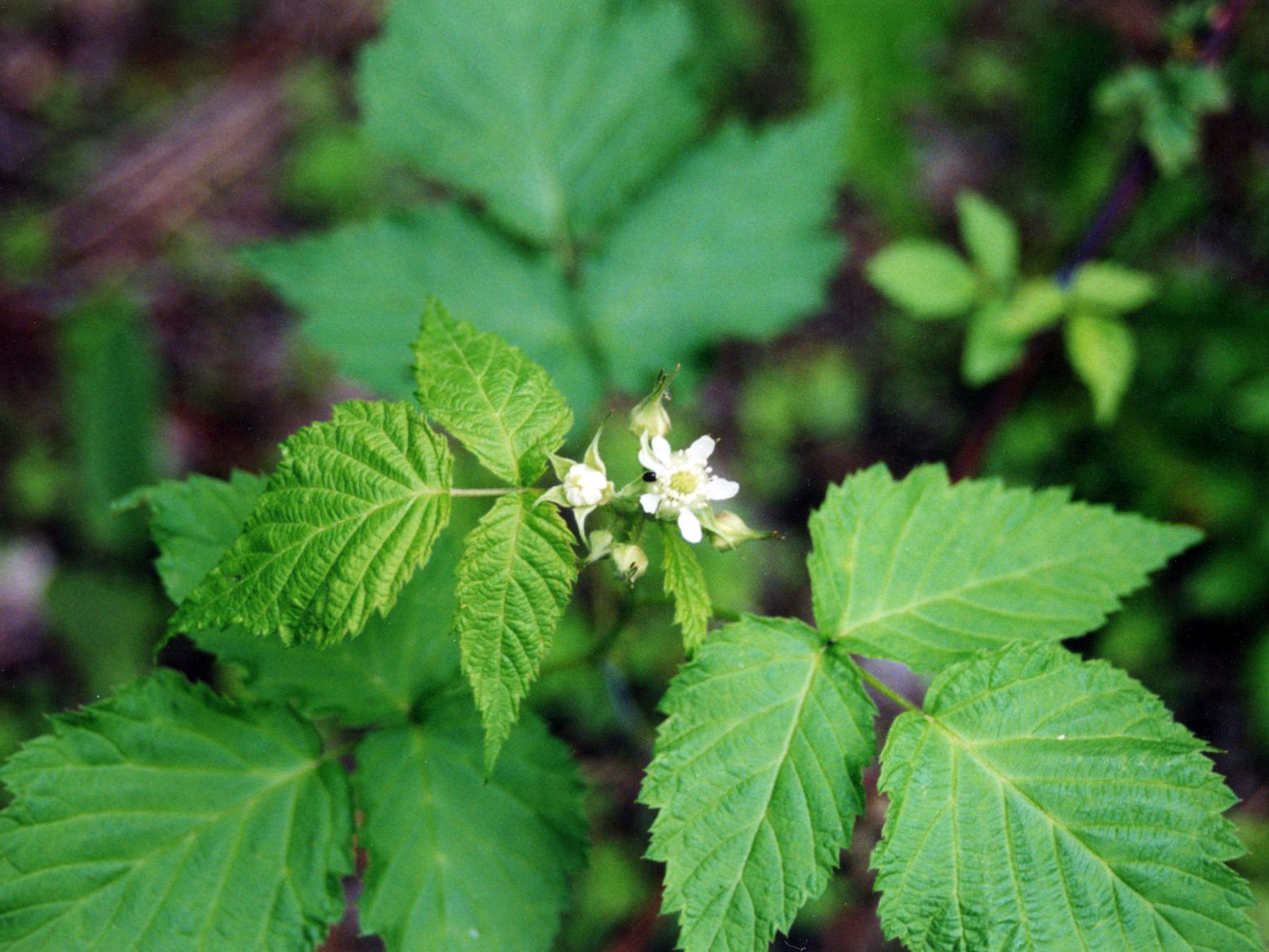 Rubus occidentalis L. - black raspberry